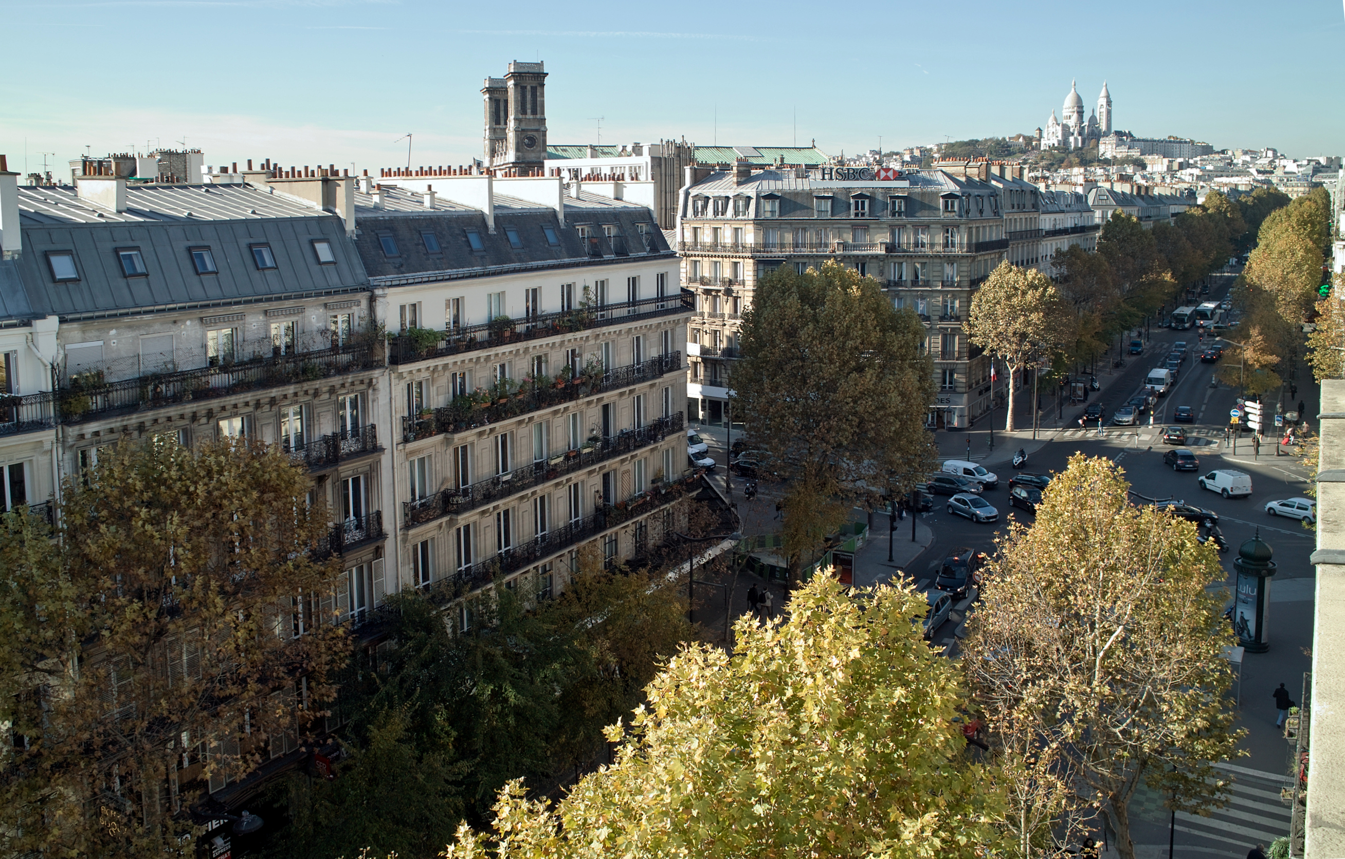 Boulevard de Magenta, Paris, France.